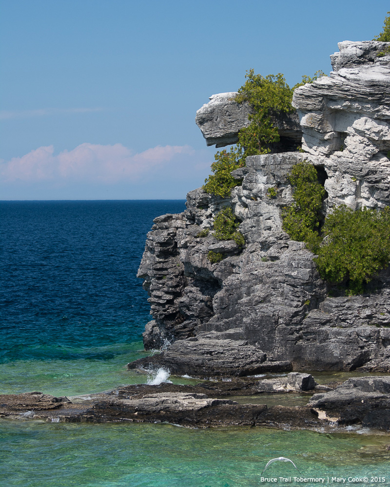 Bruce Peninsula